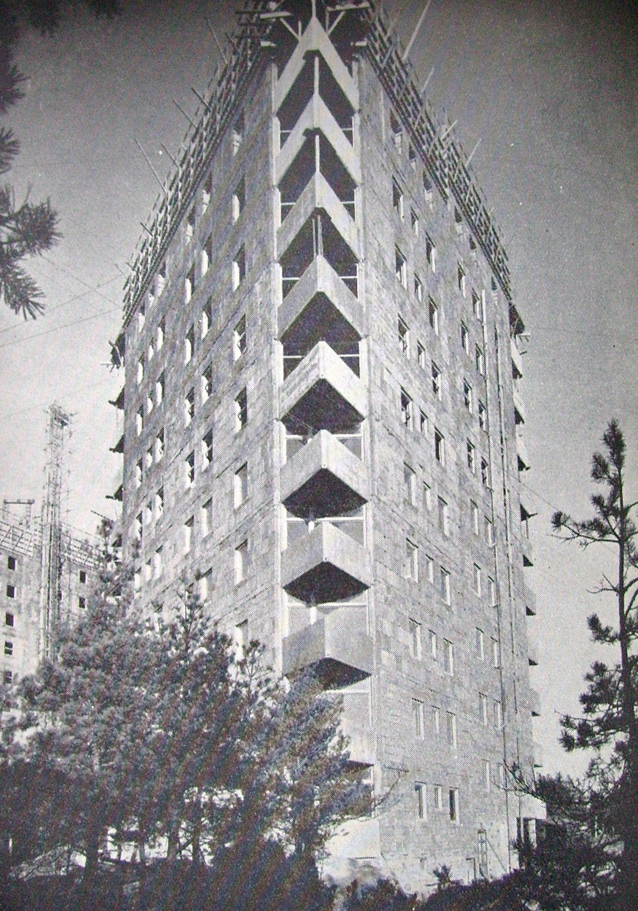 Picture of house under construction in Kortedala in Göteborg, 1950s